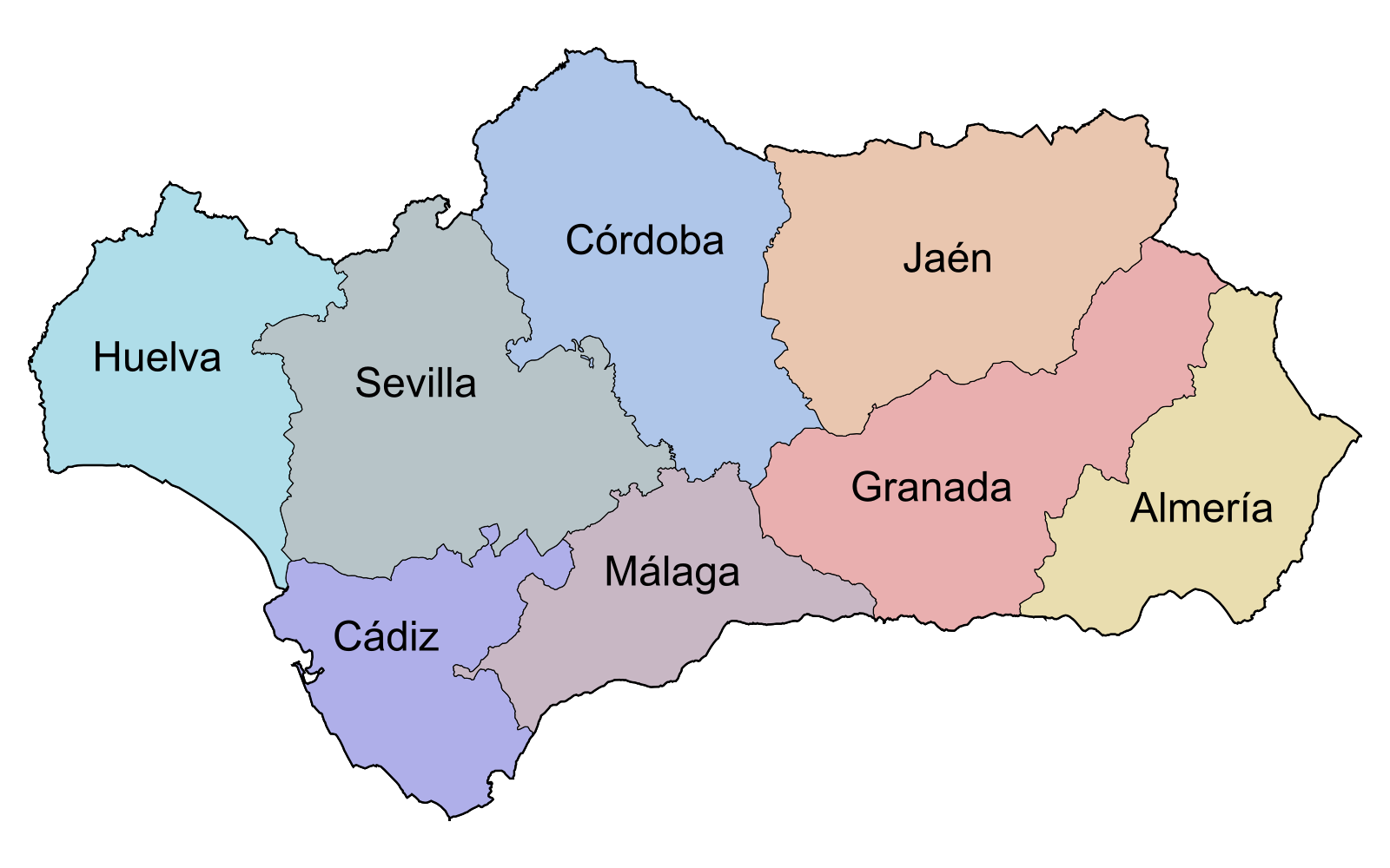 Map of Andalusia divided on provinces